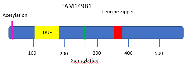 Schematic diagram of the FAM149B1 protein after post-translational modifications. The location of the DUF3791 domain is also shown.